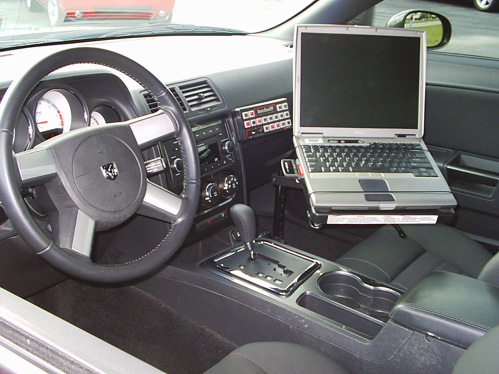 Broward County (Florida) Sheriff's 2010 Challenger R/T pursuit vehicle - Interior.